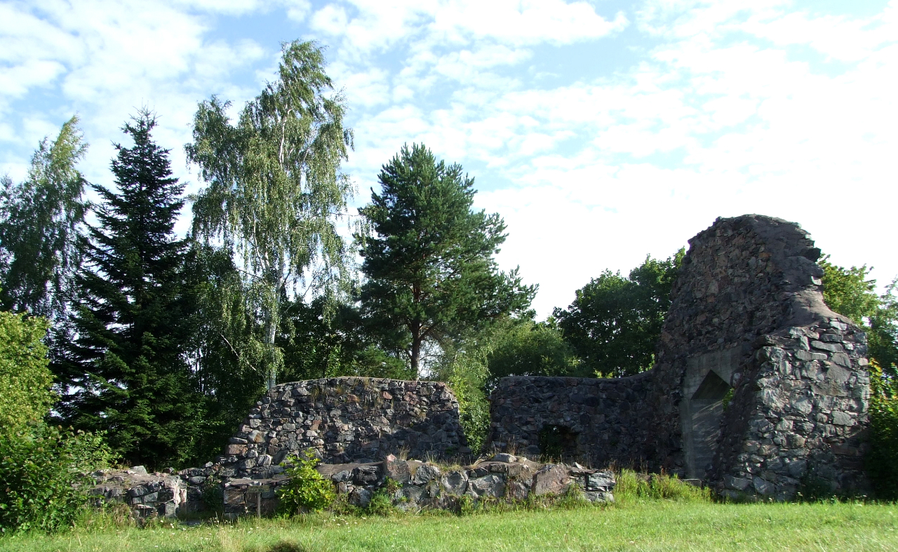 Old church of Tryserum